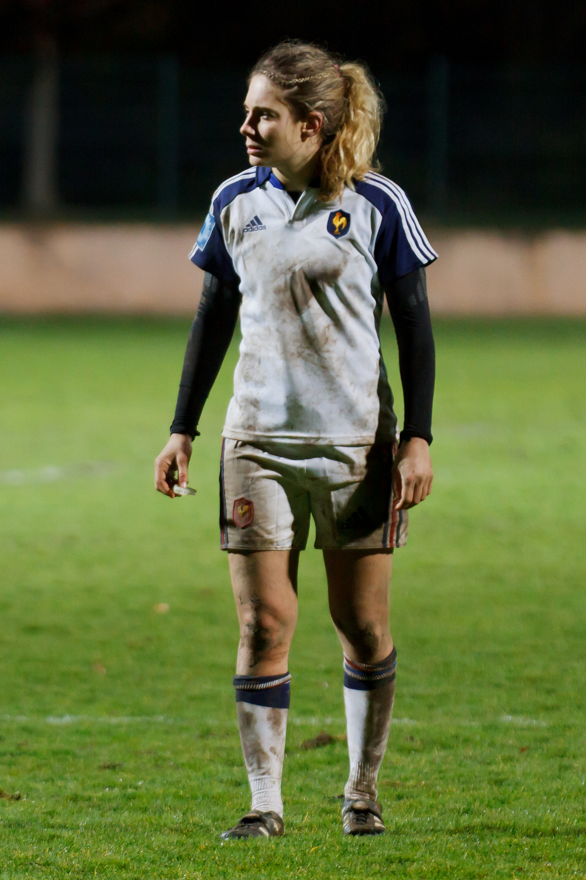 2014 Women's Six Nations Championship — 9 February 2014, Stade Ernest Argeles. Match between: France women's national rugby union team — Italy women's national rugby union team